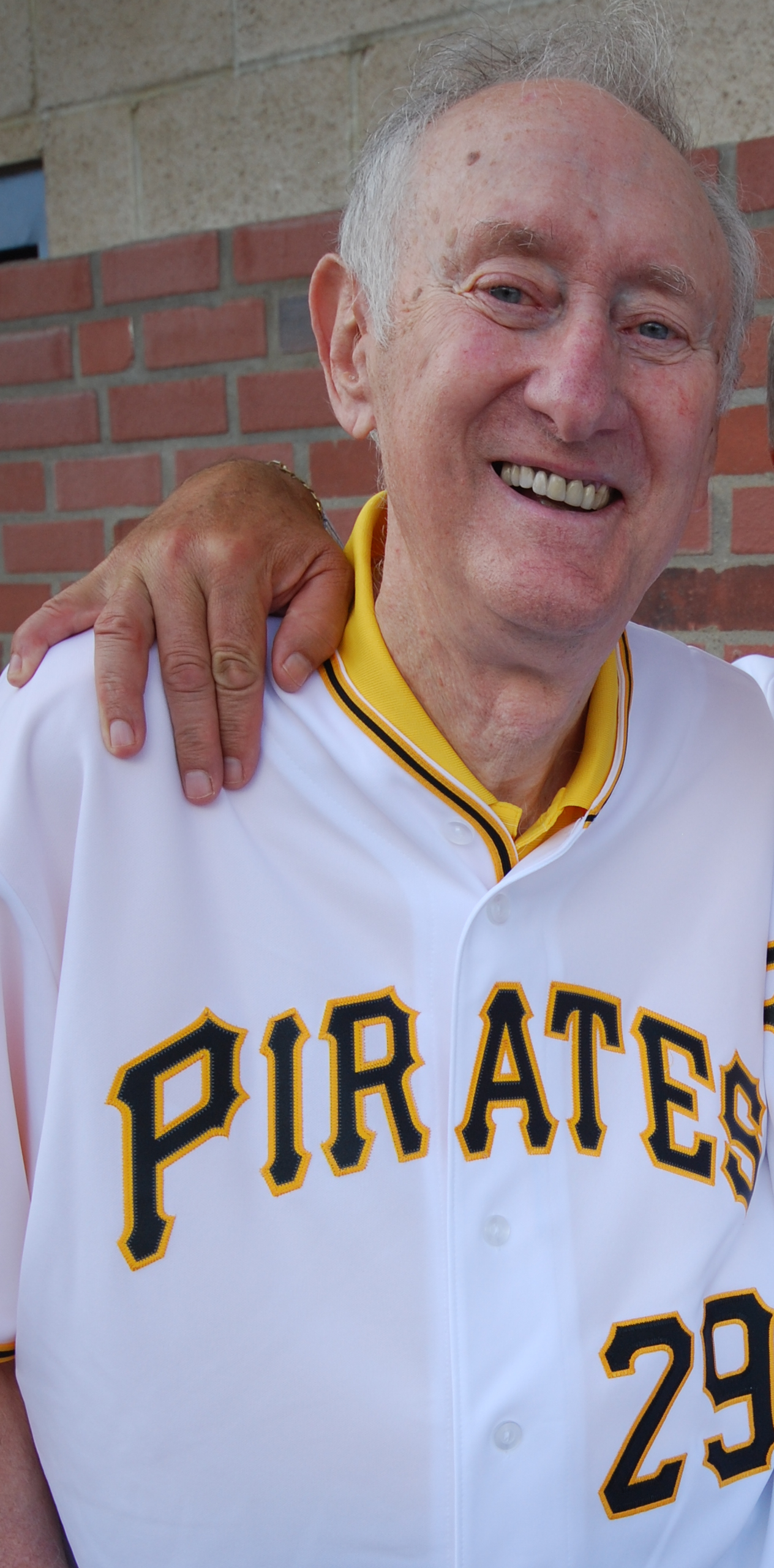 Former Pittsburgh Pirates pitcher Nellie King at Forbes Field 100th Anniversary Event - PNC Park June 30, 2009